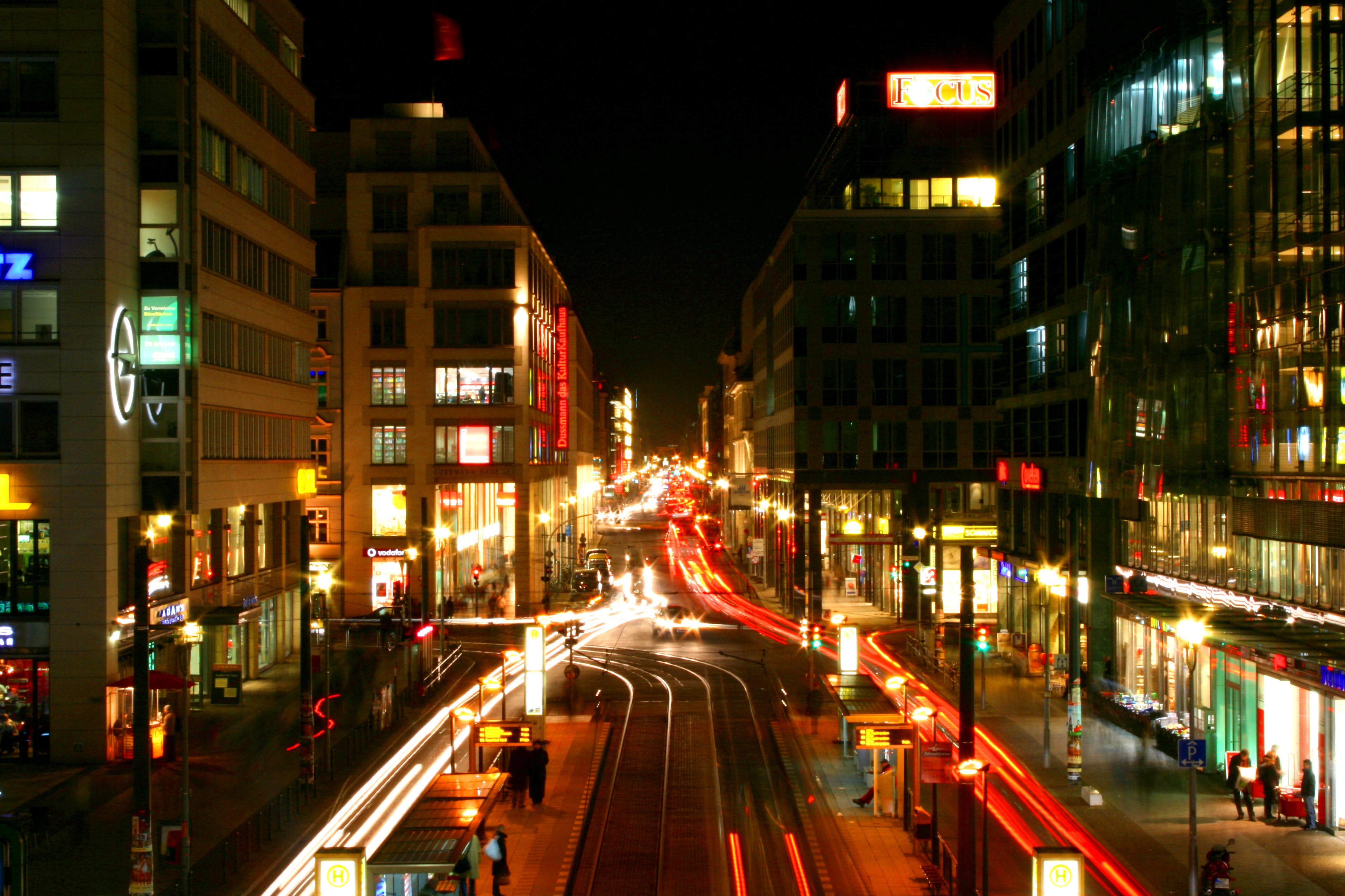 The Friedrichstrße in Berlin at night.